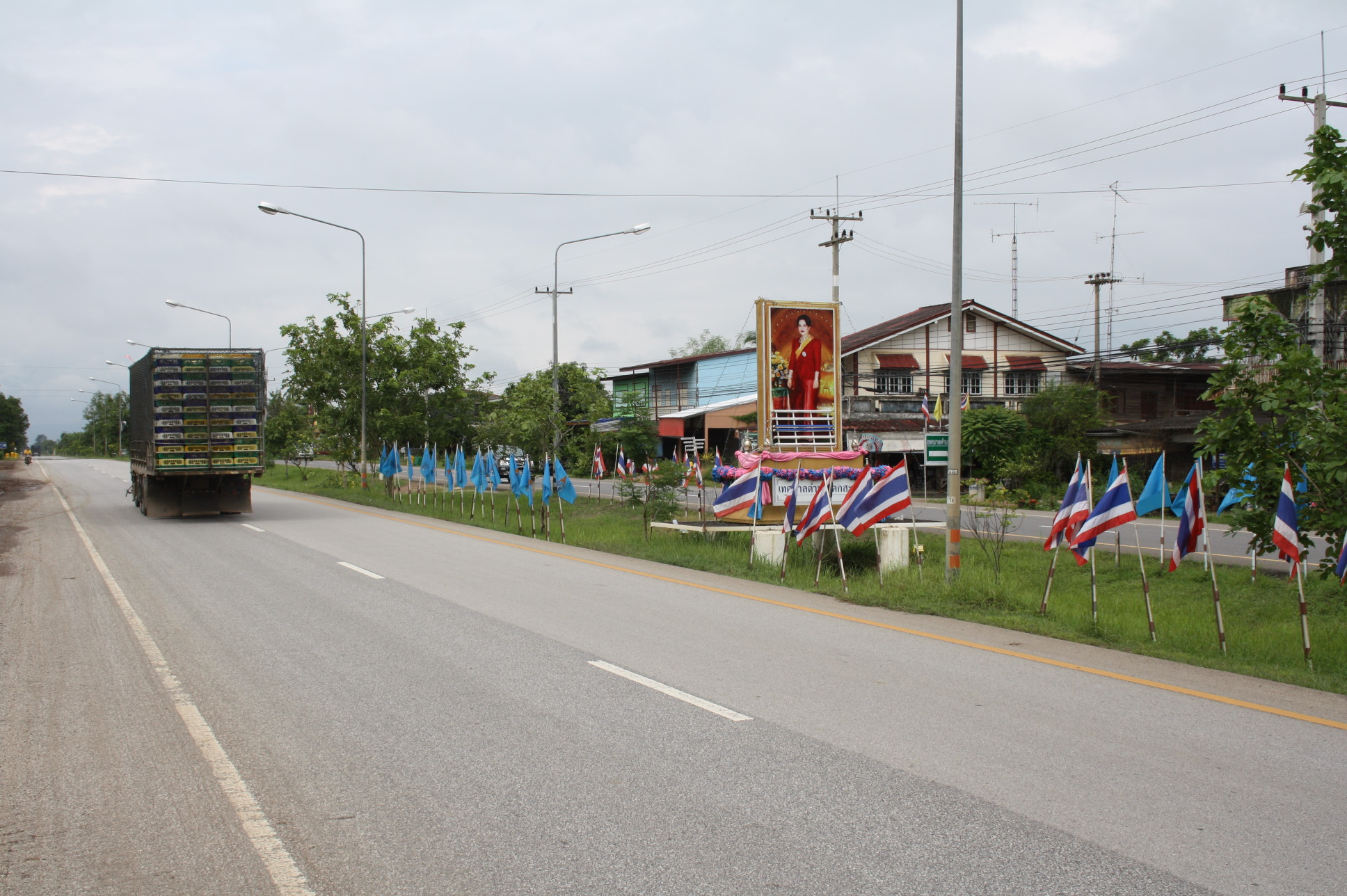 Thailand Route 21, km 106, northbound, Ban Khok Sa-at, Si Thep District, Phetchabun Province